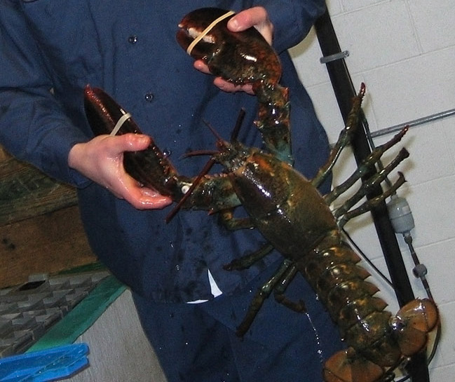 A 4lb (~2kg) lobster, fresh caught